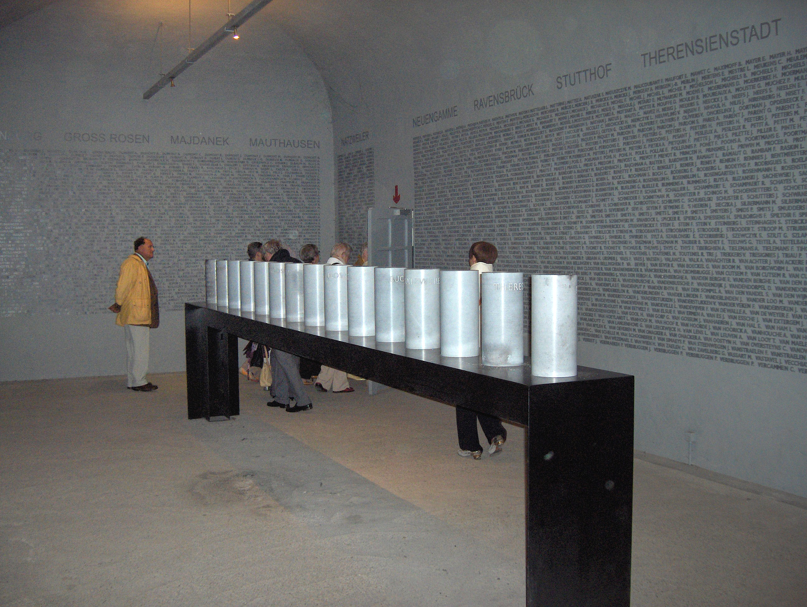 Wall with the names of the transportees to the concentration camps; Fort van Breendonk, Belgium